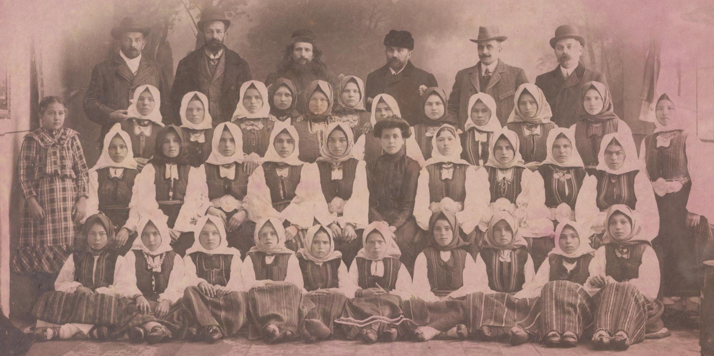 Course for housewives in Gnjilan, 1908